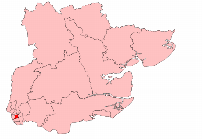 A map of Upton constituency within Essex, as it existed from 1918 to 1950.